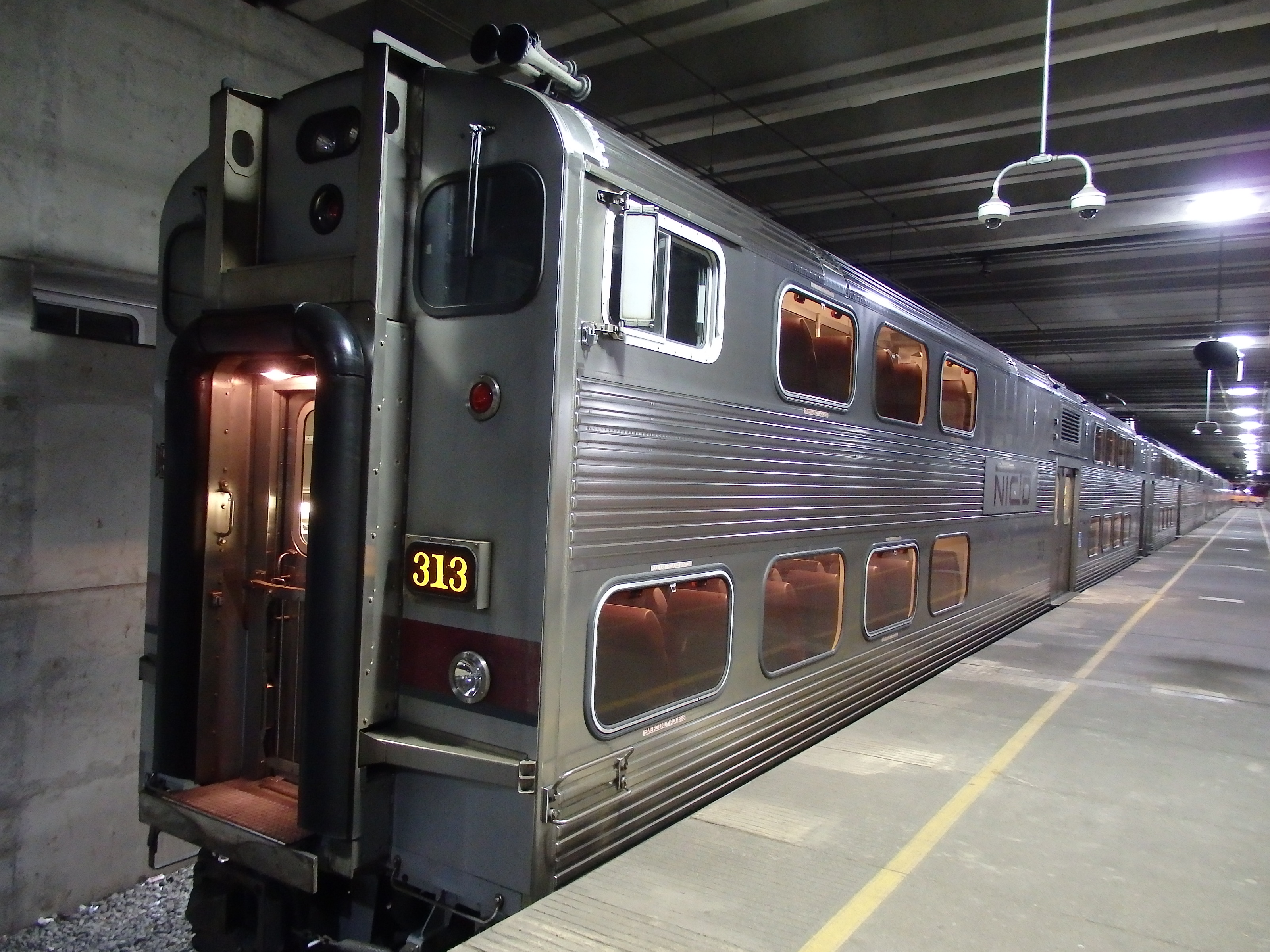 Nippon Sharyo's Highliner of South Shore Line at Millennium Station.